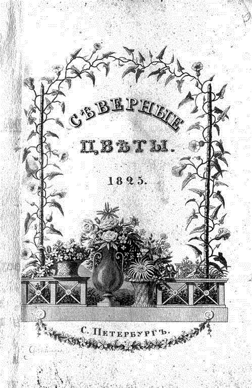 1825 edition of Anton Delvig's journal "Northern Flowers"